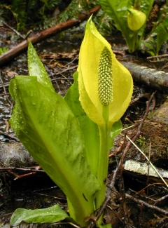 Western Skunk Cabbage (Lysichiton americanus)